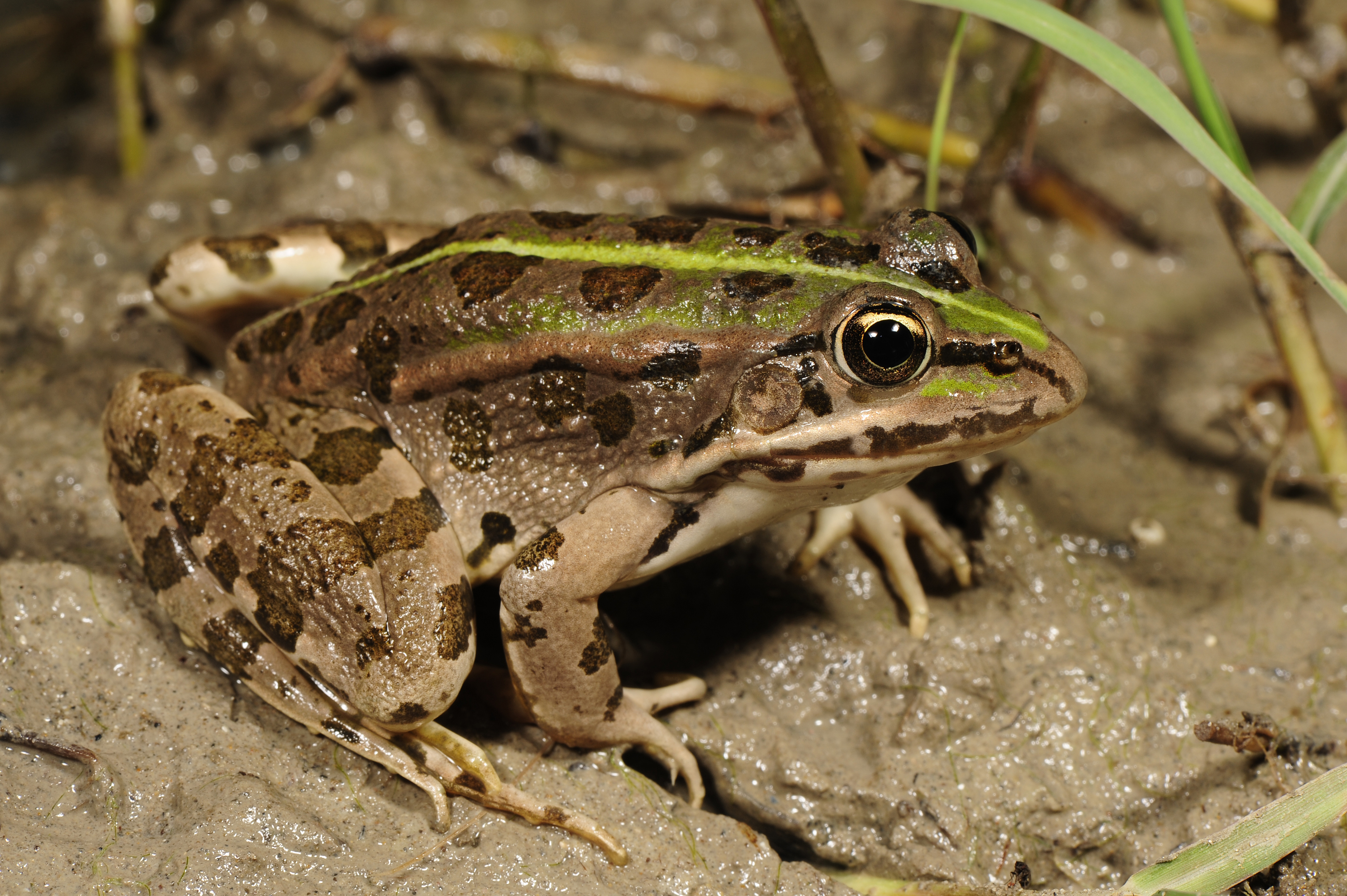 Epirus Water Frog (Pelophylax epeiroticus) from Peloponnesus